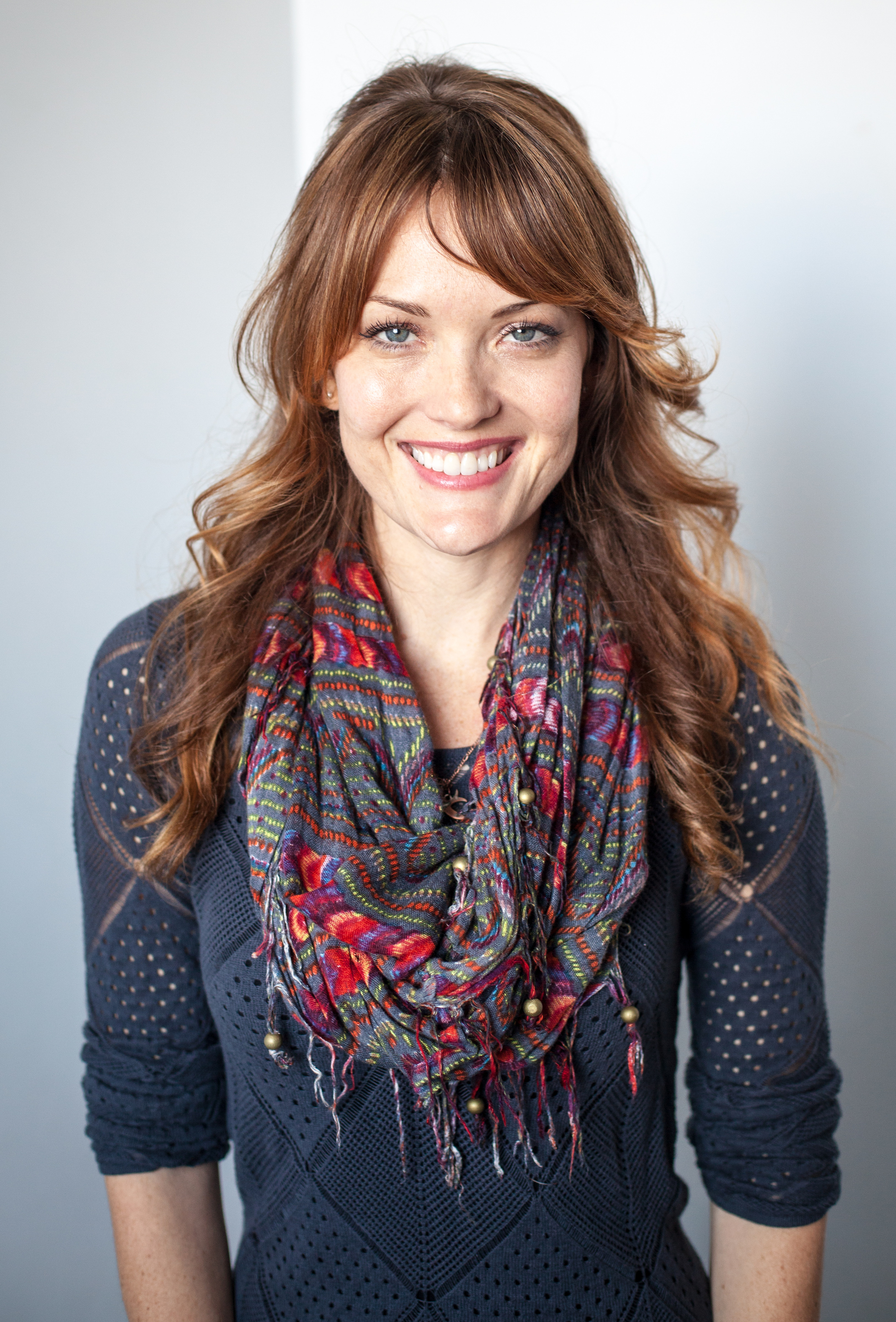 Amy Purdy, Paralympic Snowboard Crosser at PopTech in 2012